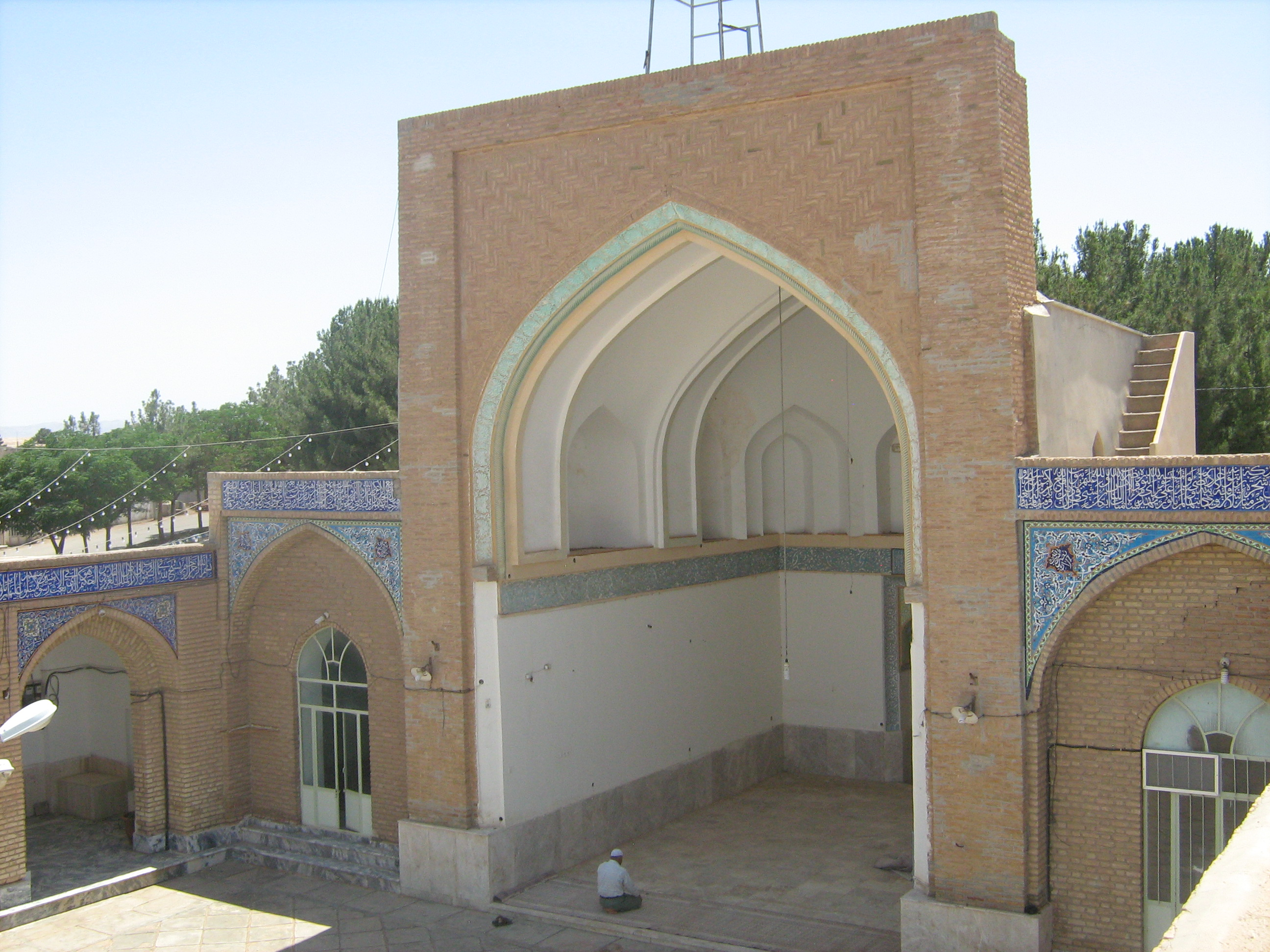 bidokht musque